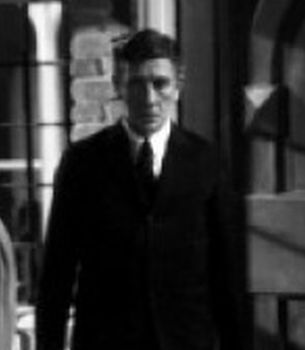 L. to R. : Richard Haydn in And Then There Were None - cropped screenshot